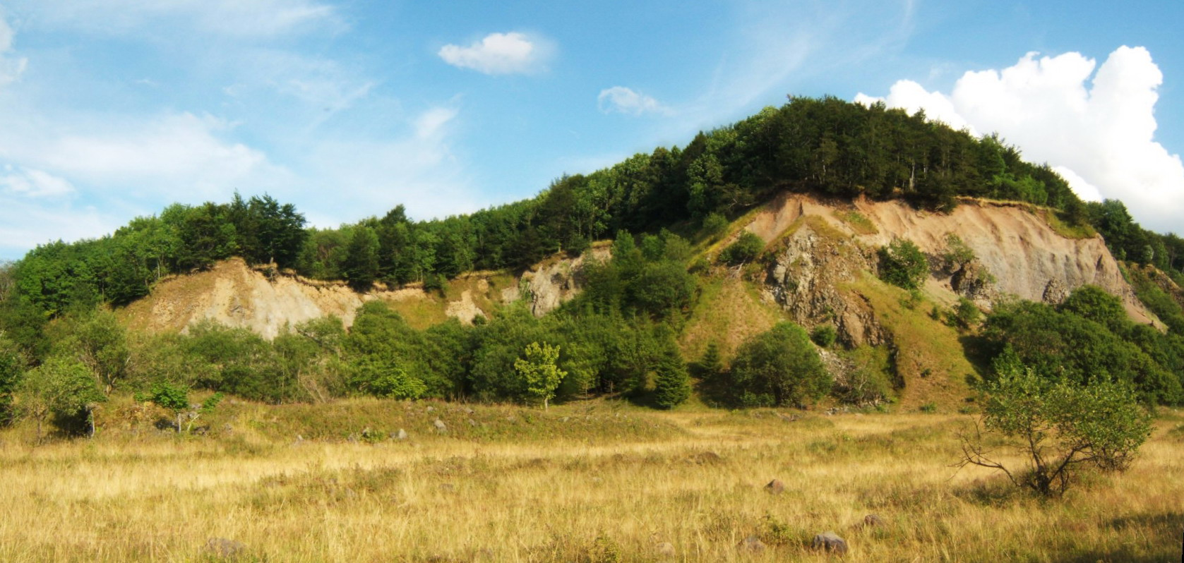 The Umpfen in South Thuringia near Kaltennordheim